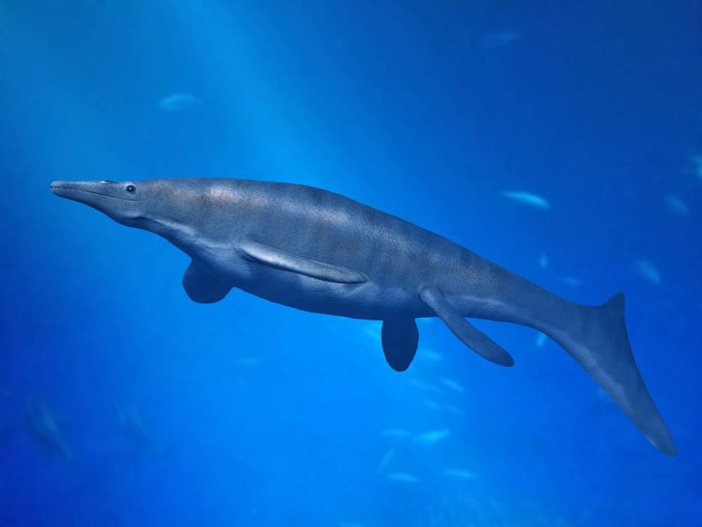 Restoration of Plesiotylosaurus crassidens